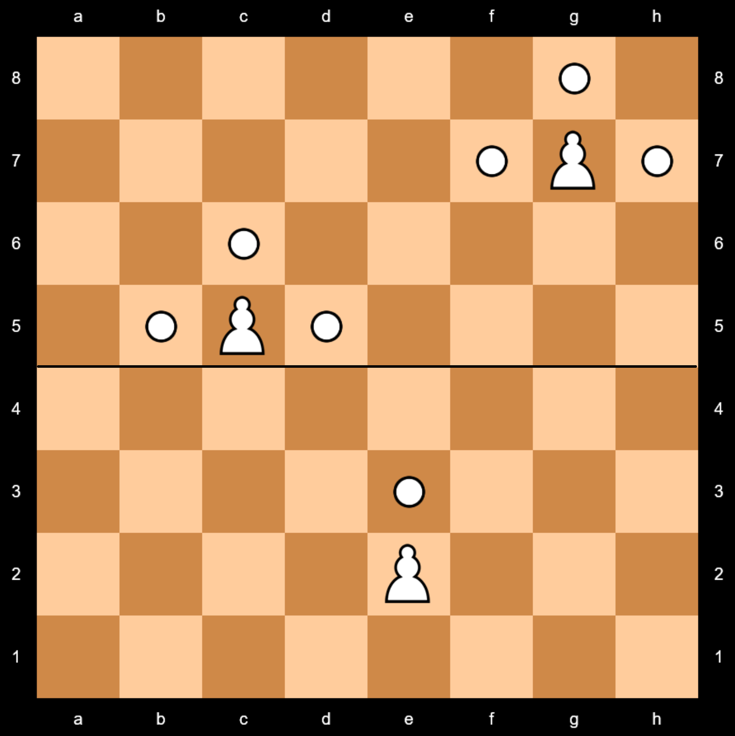 Like Shogi Pawns: move and capture by advancing one point. Once they cross opponents half of the board (=River), they may also move and capture one point horizontally (or one square horizontally). Soldiers cannot move backwards, after advancing to the last rank of the board, however, a soldier may still move sideways at the enemy's edge (there is no promotion).